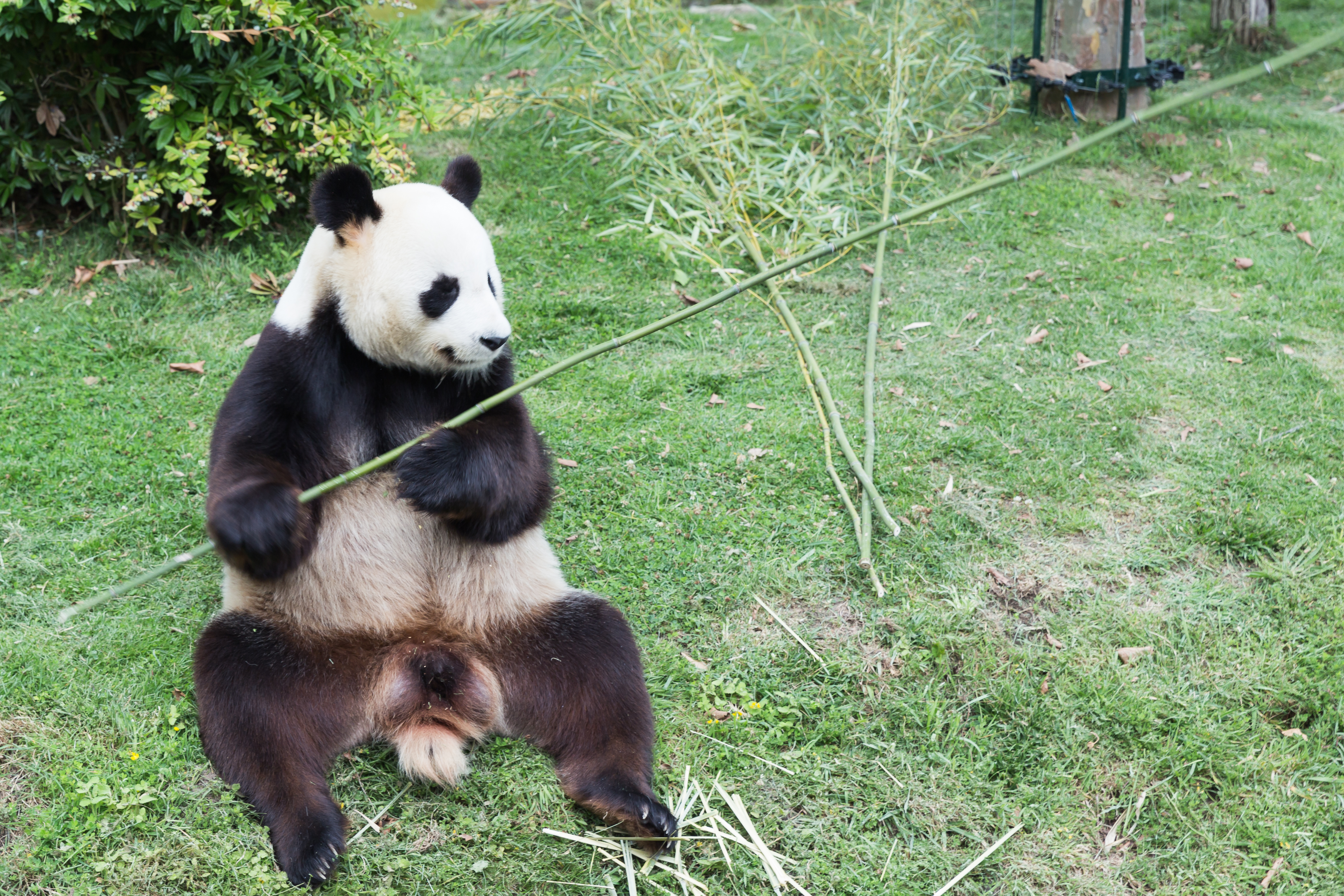 Ailuropoda melanoleuca (Giant Panda) male in the ZooParc Beauval in Saint-Aignan-sur-Cher, France.